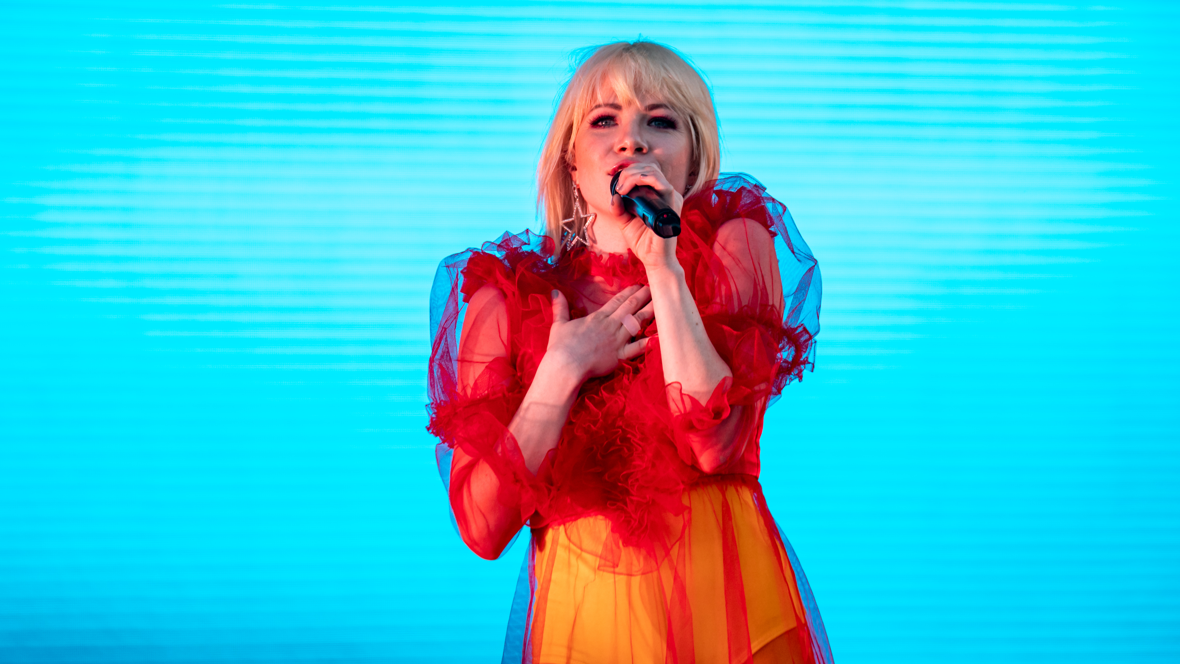 Carly Rae Jepsen at Primavera Festival 2019